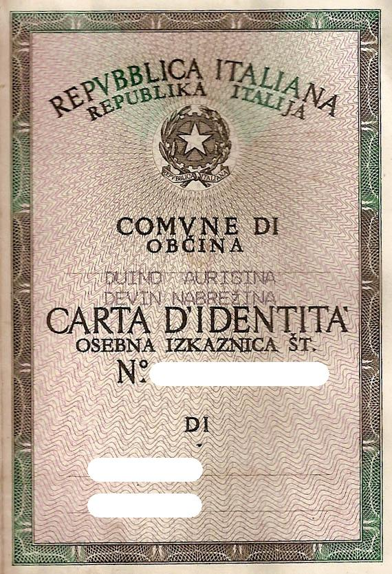 Italian identity card for Slovenian speaking citizen